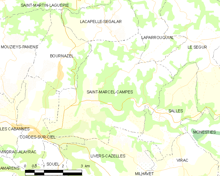 Map of French municipality Saint-Marcel-Campes